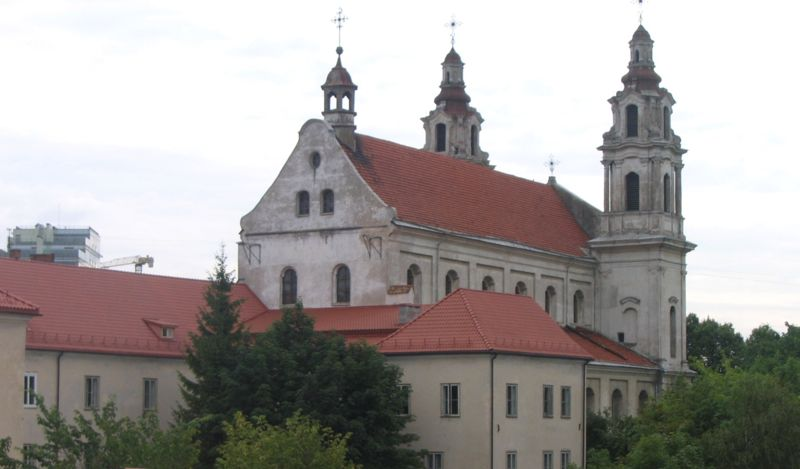 Church of the St Raphael the Archangel and former jesuit monastery in Vilnius